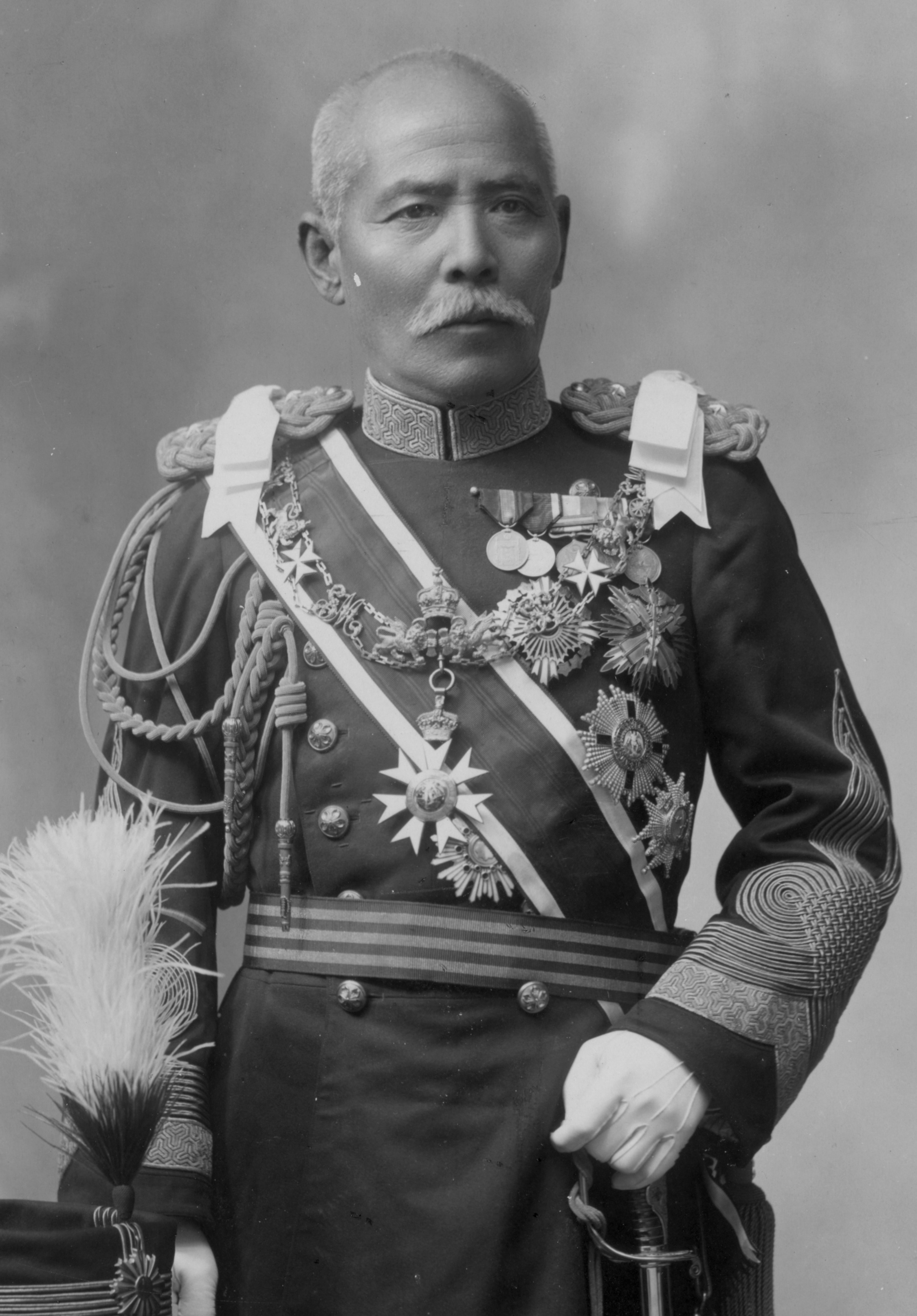 Portrait of Kuroki Tamemoto (黒木為楨, 1844 – 1923)